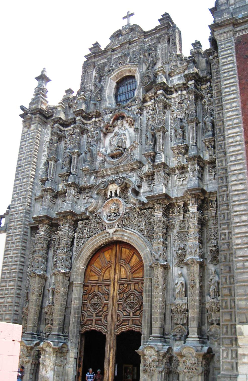 Main portal of La Santisima Church in Mexico City